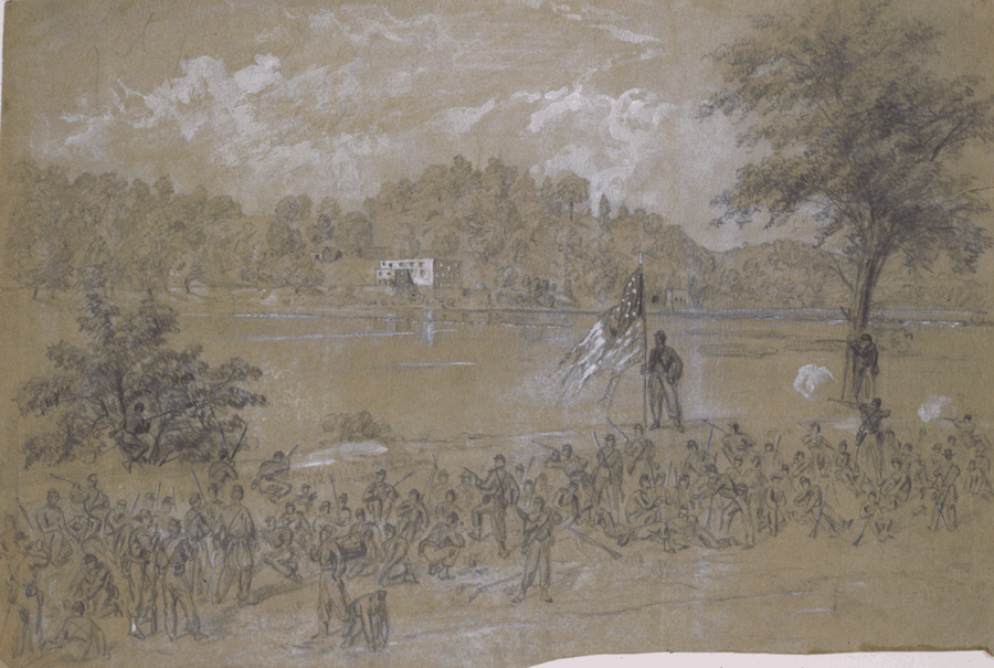 Ford near Shepherdstown, on the Potomac. Pickets firing across the river SUMMARY: Soldiers resting, and firing guns on the banks of the Potomac.